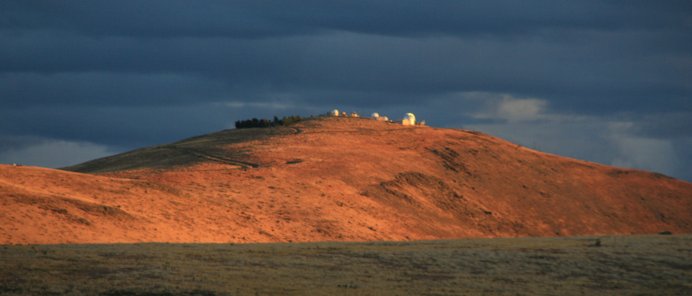 Looking at southeast at Mount John University Observatory, New Zealand. Coordinates are approximate only (may be several kilometres off).